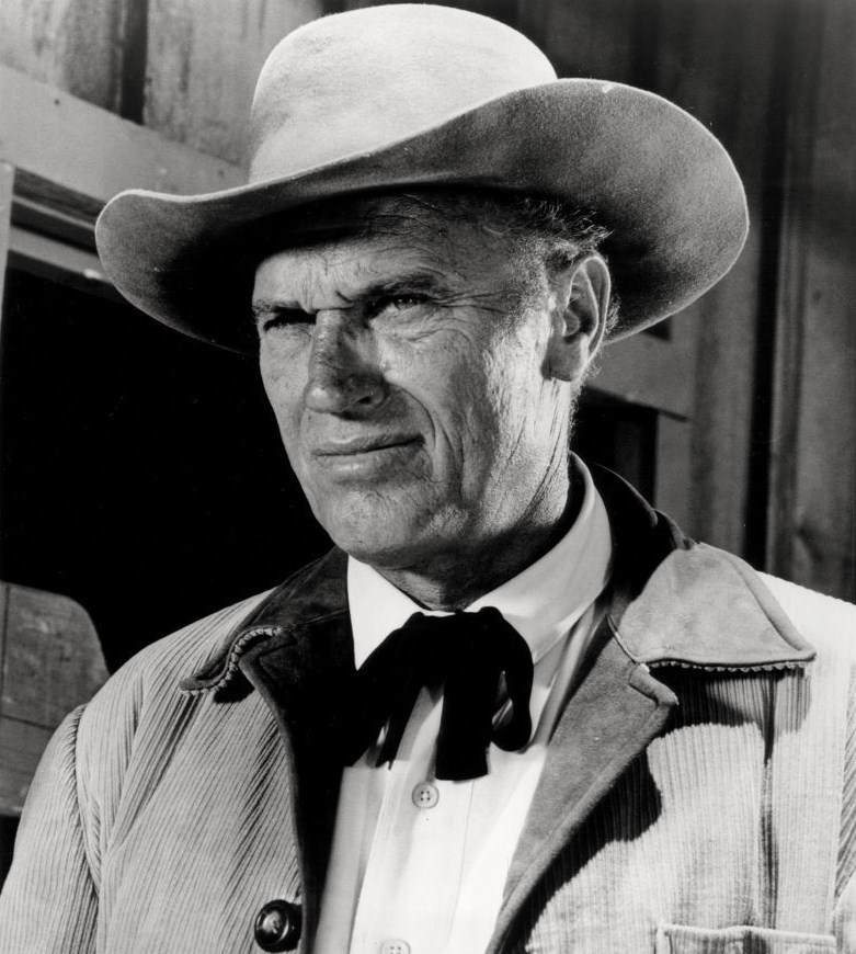 Robert J. Wilke in the TV-series Death Valley Days, episode Brute Angel - publicity still (cropped : see source)